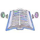 Dynamic Dictionary logo proposal